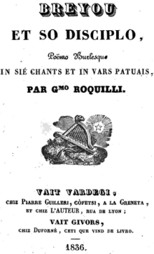 Cover page of Guillaume Roquille's 1836 Breyou et so disciplo an attack written in the Arpitan/Franco-Provençal language on the suppression of the 1834 Lyon workers revolt